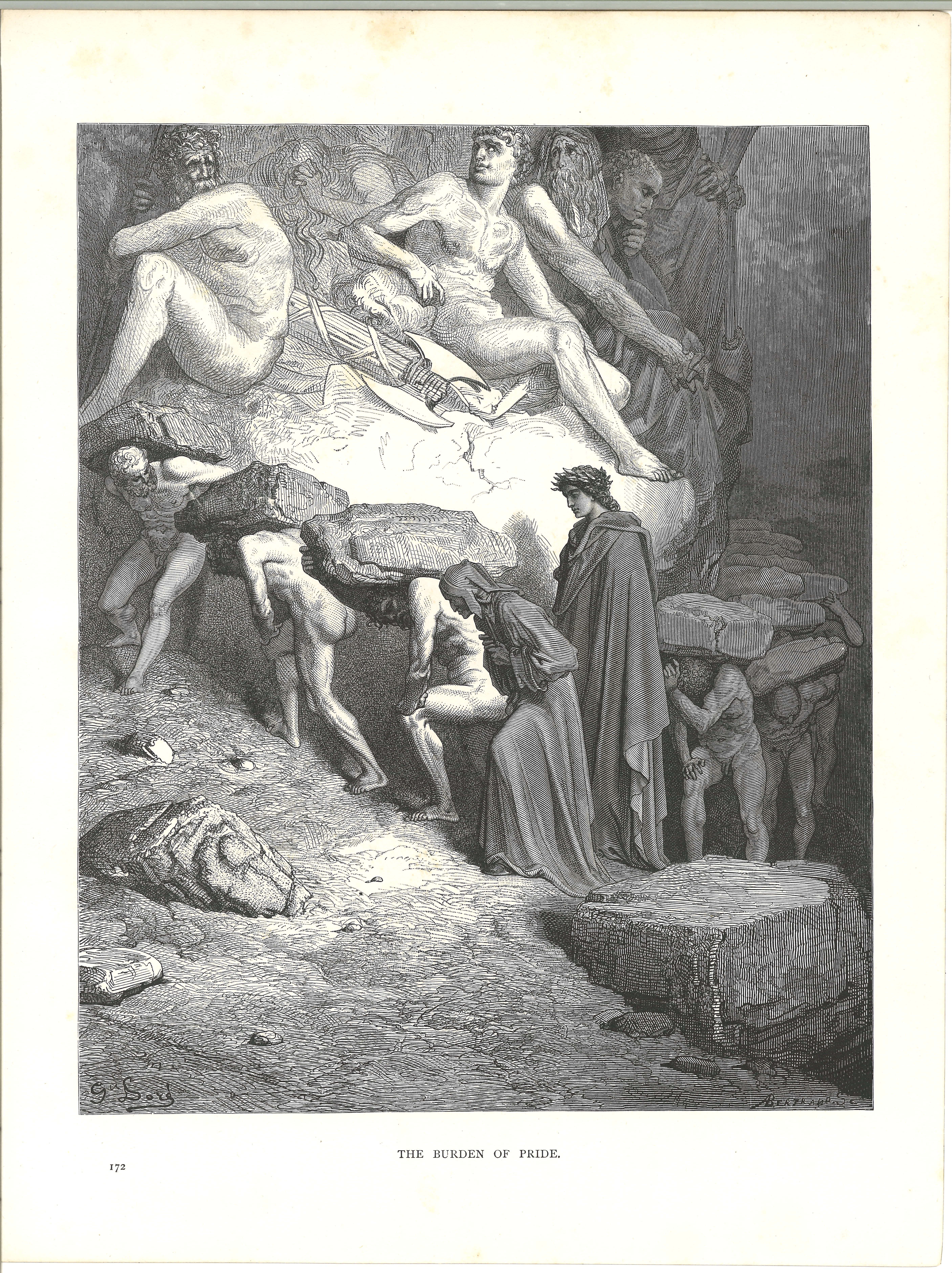 This is one of the original prints, scanned at 600dpi, it depicts Purgatory from the Divine Comedy, made by Gustave Dore